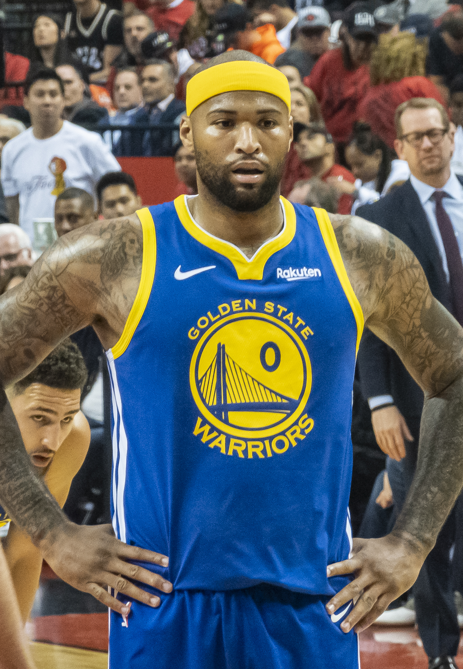 demarcus cousins 2019 nba finals game 2 scotiabank arena toronto raptors fred van vleet nick nurse